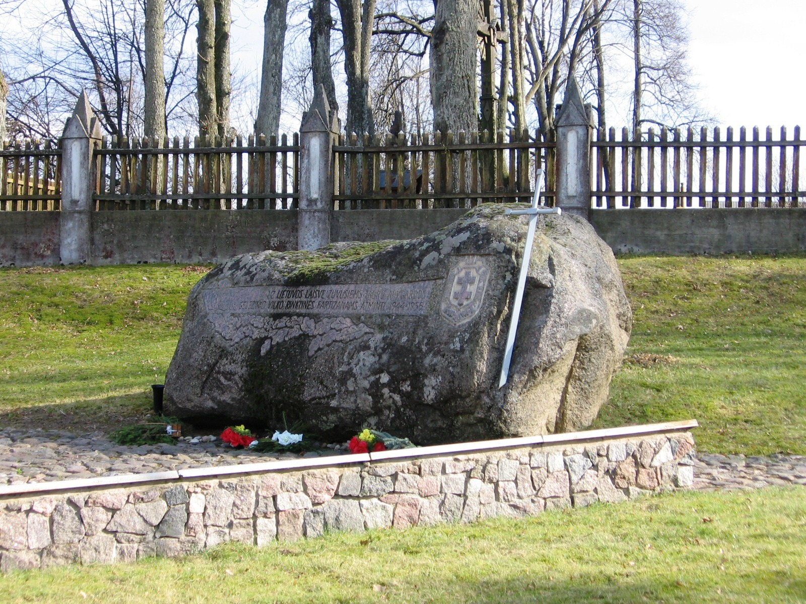 Memorial stone of Tauras district partisans, Šilavotas, Prienai district, Lithuania